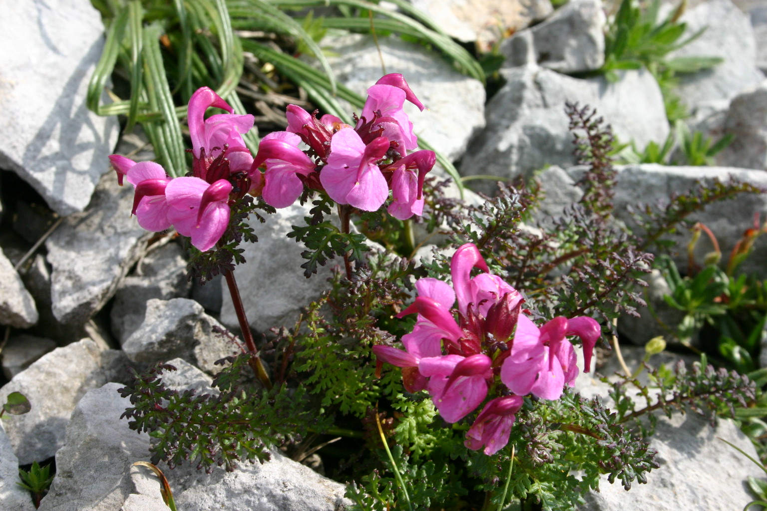 Pedicularis rostratocapitata